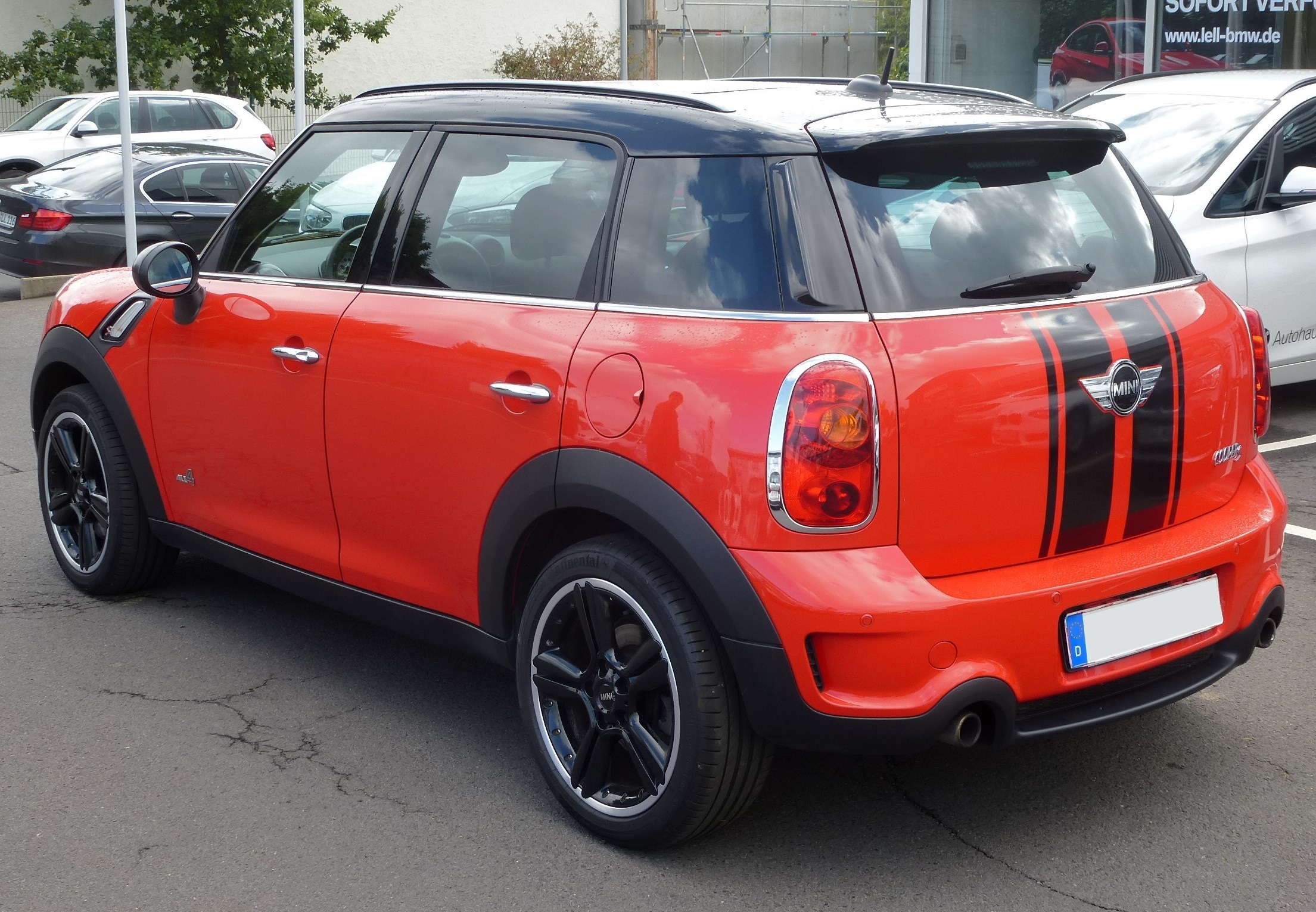 Mini Countryman